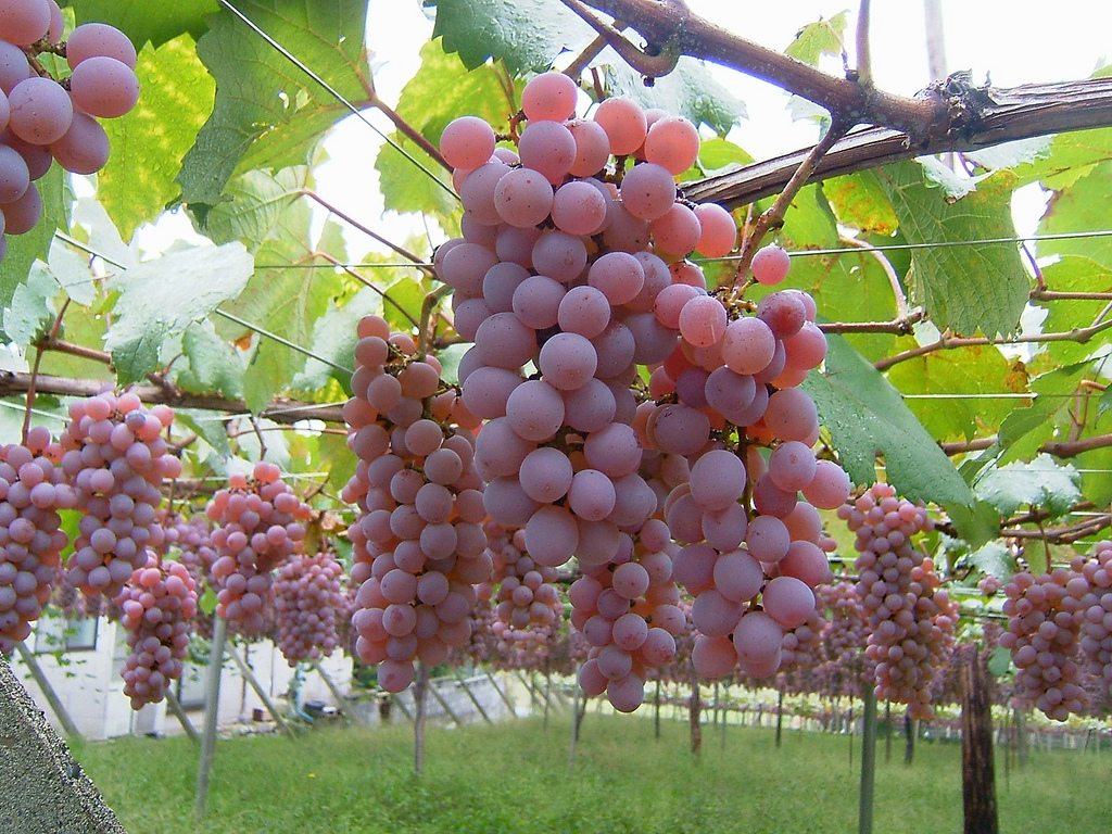 A vineyard at Katsunuma, Japan. The area is known as one of the major wine producing regions in Japan.